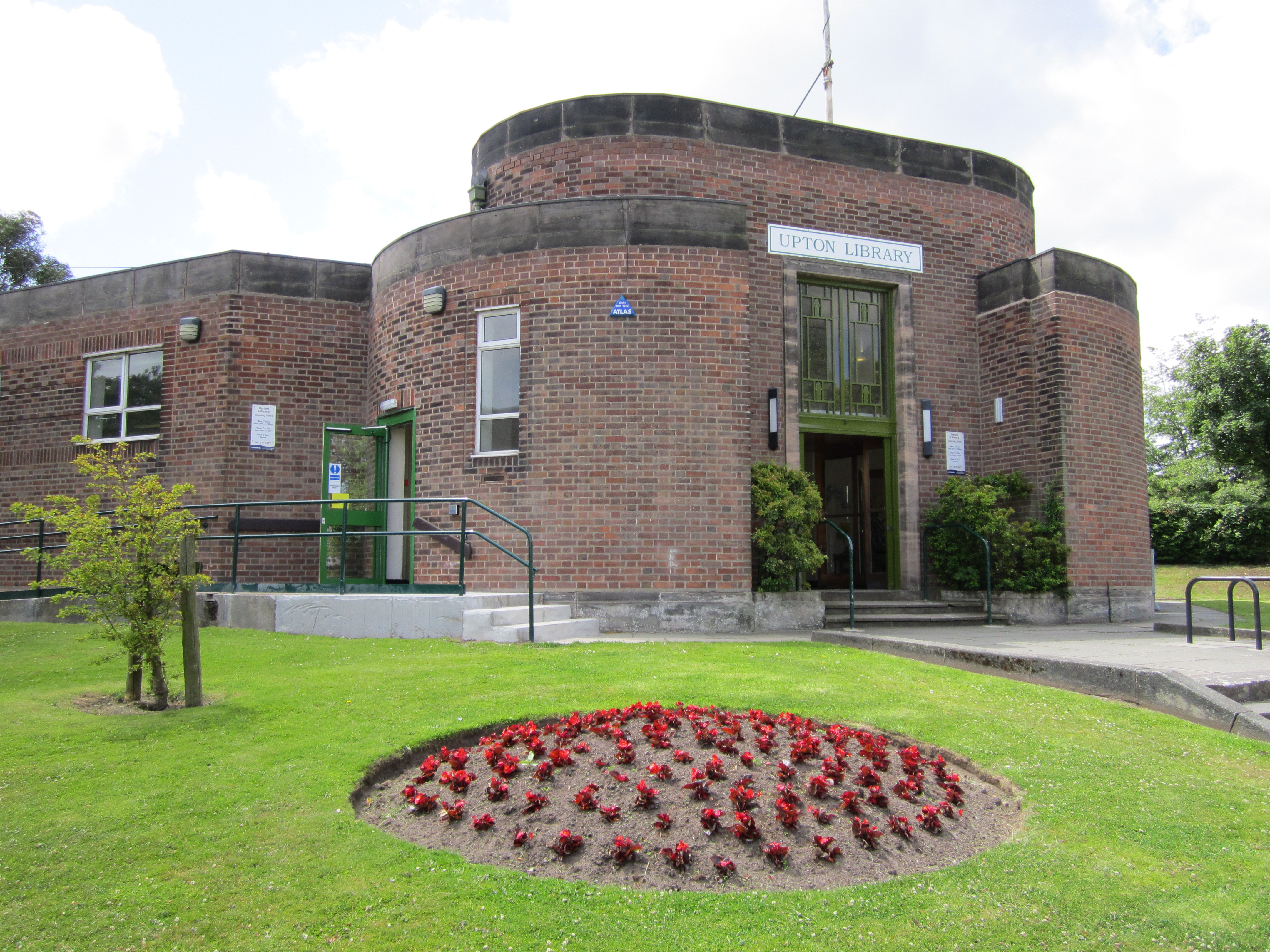 Upton Library, Wirral, England.